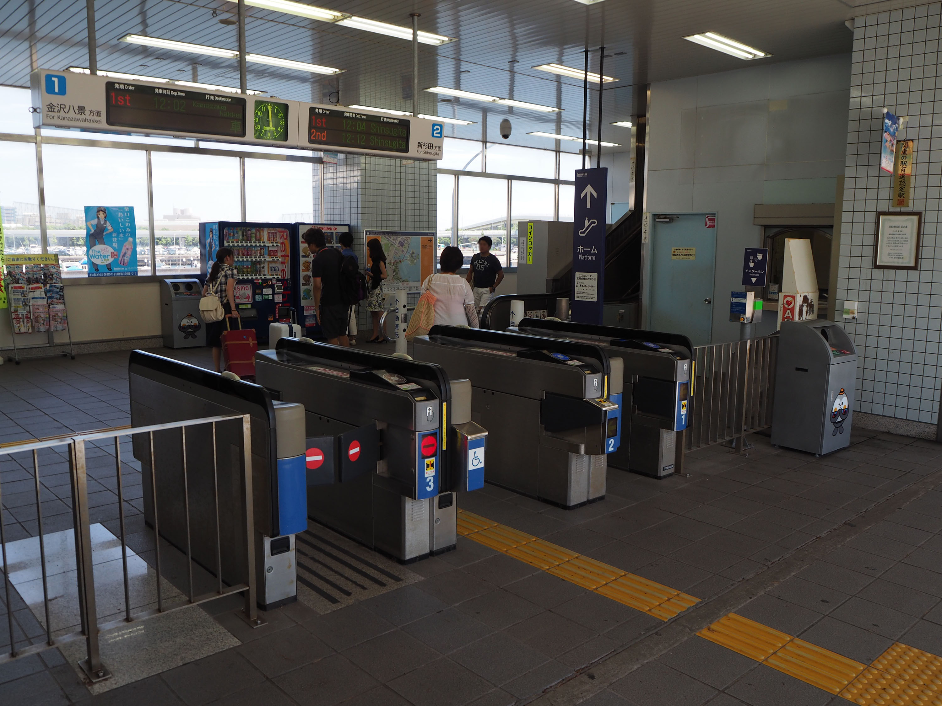 Ticket gate of Hakkeijima Station